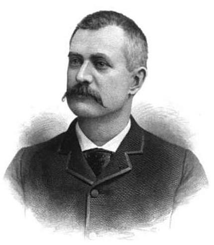 Charles A. Russell, US Representative from Connecticut